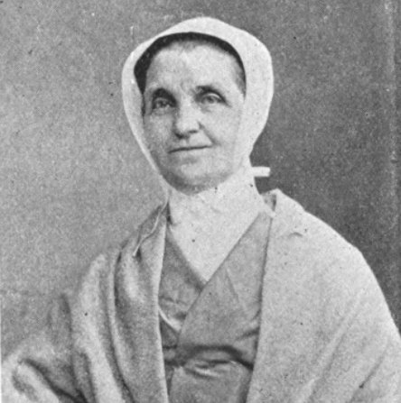 Shaker teacher Mary Whitcher (1815–1890)